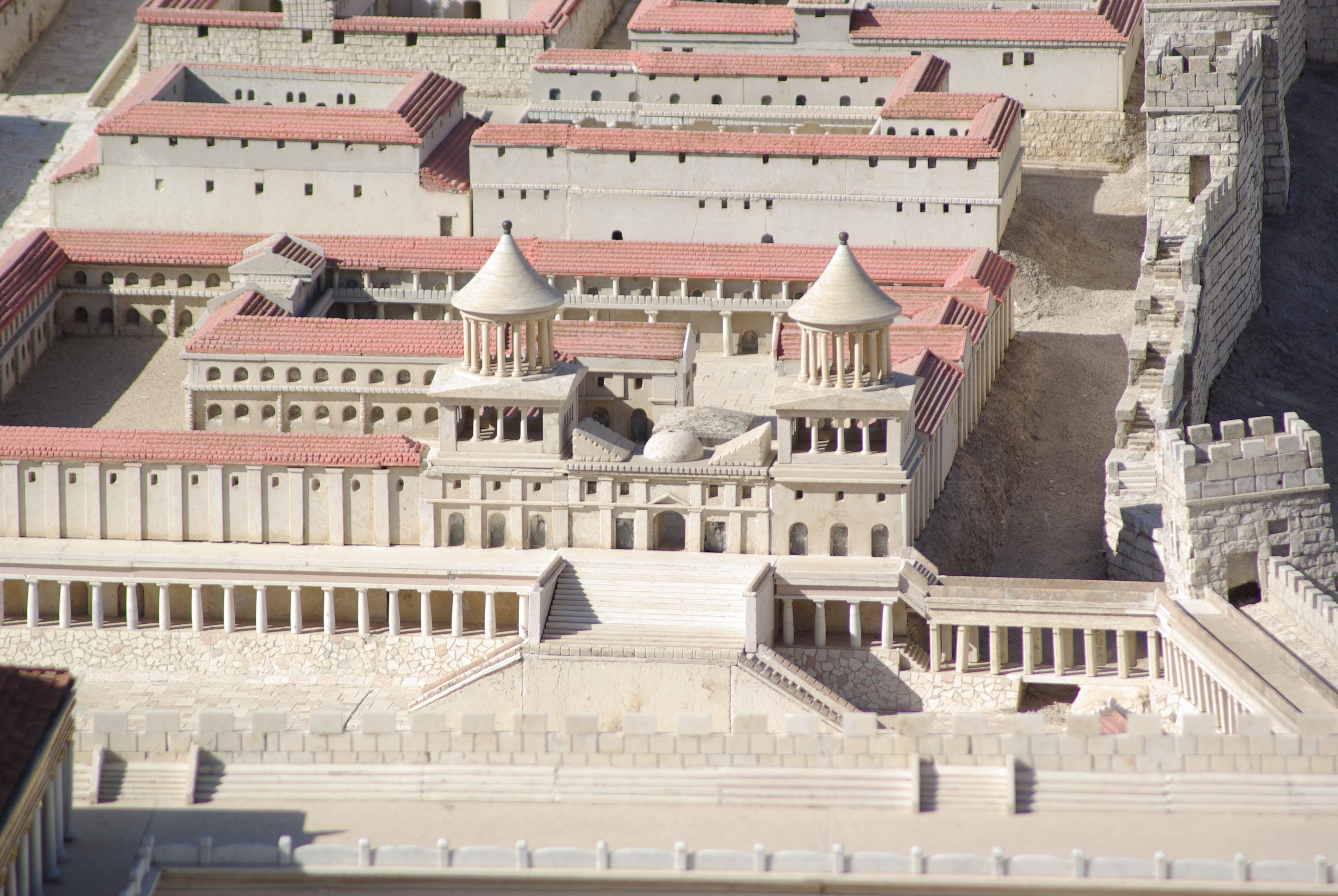 Jerusalem Model, Hasmonean palace